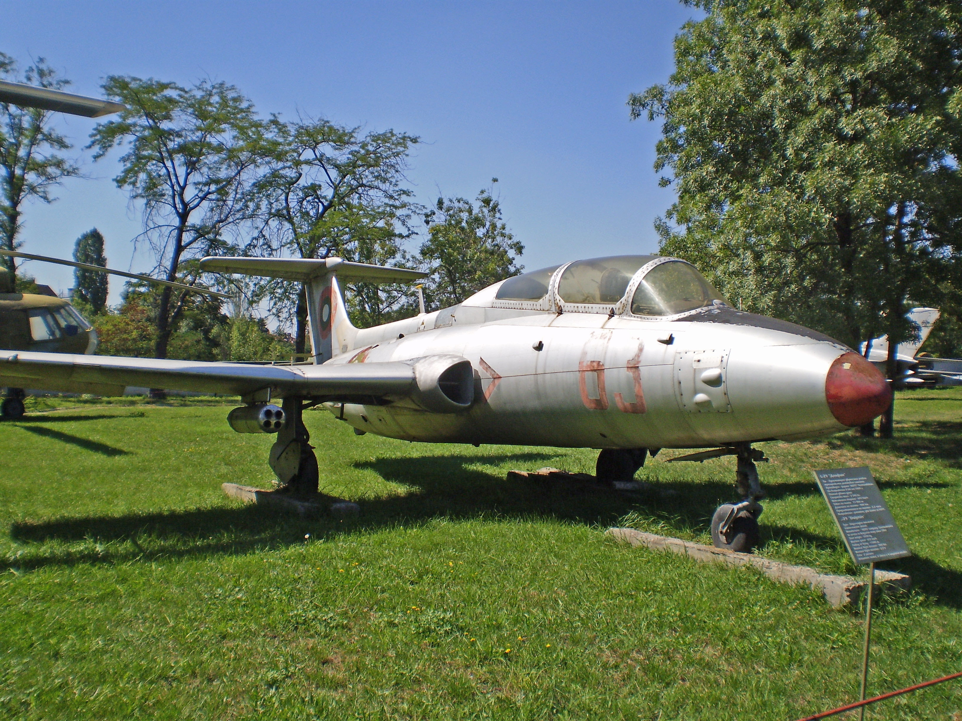 An Aero L-29 Delfin, armed with a pair of rocket pods